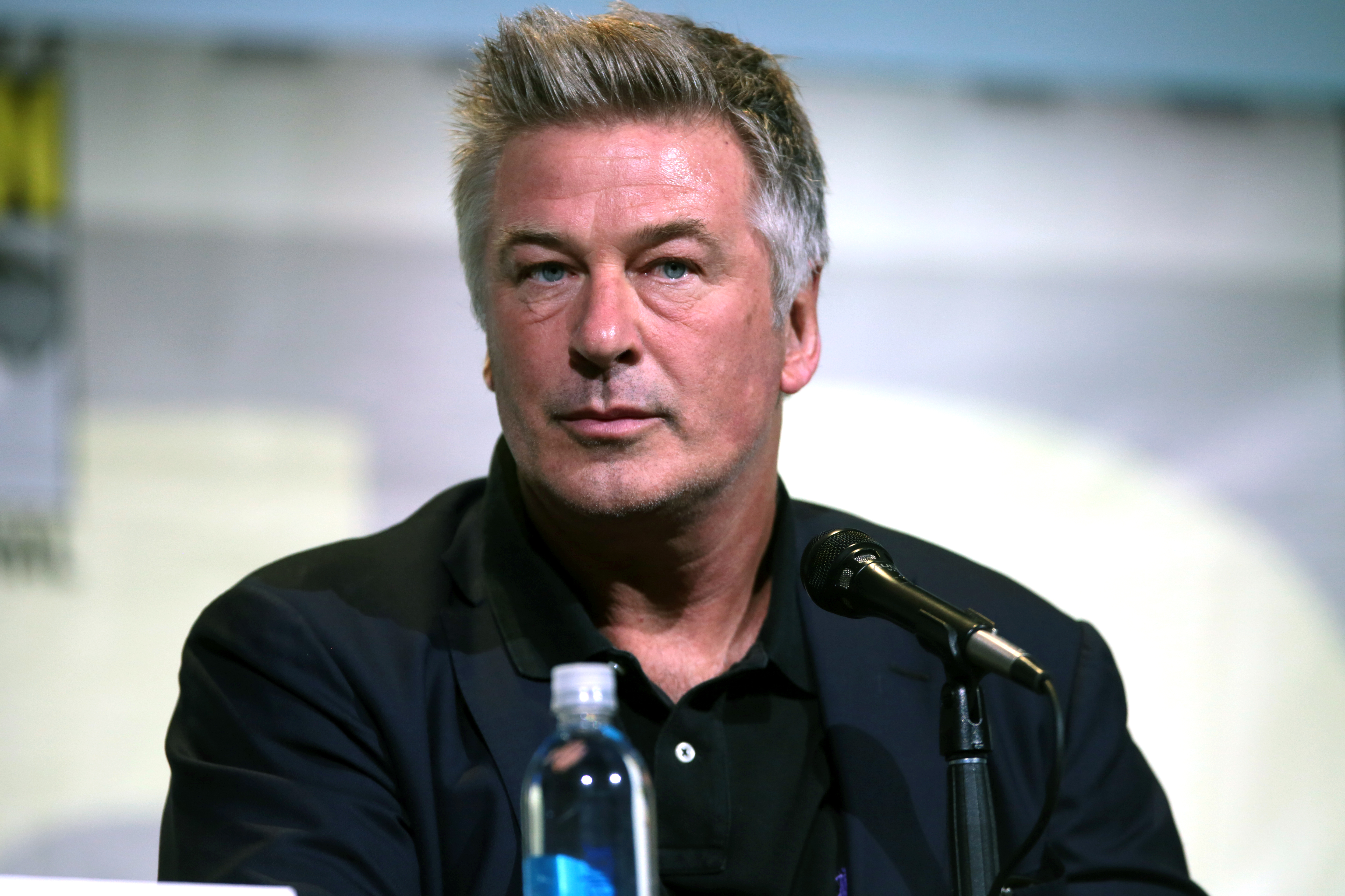 Alec Baldwin speaking at the 2016 San Diego Comic Con International, for "The Boss Baby", at the San Diego Convention Center in San Diego, California.